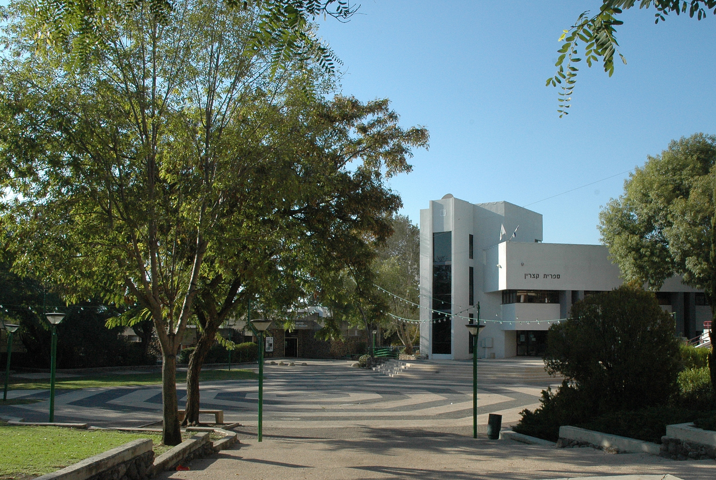 Library of Katzrin, Golan Heights